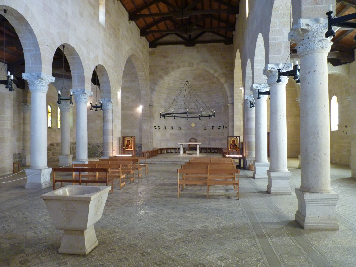 Inside the Church of the Multiplication (of the Loaves and Fishes), Tabgha, Sea of Galilee, Israel